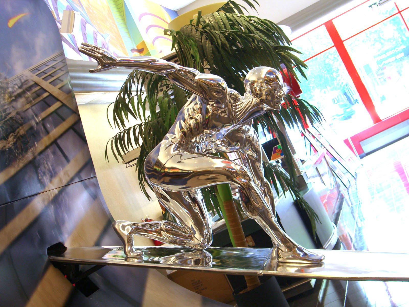 Statue of the comic book character Silver Surfer, part of a theater sandee for the 2007 feature film Fantastic Four: Rise of the Silver Surfer, as seen in the lobby of the Loews Kips Bay movie theater in Kips Bay, Manhattan, in 2007. This photo was created by Luigi Novi. It is not in the public domain, and use of this file outside of the licensing terms is a copyright violation.